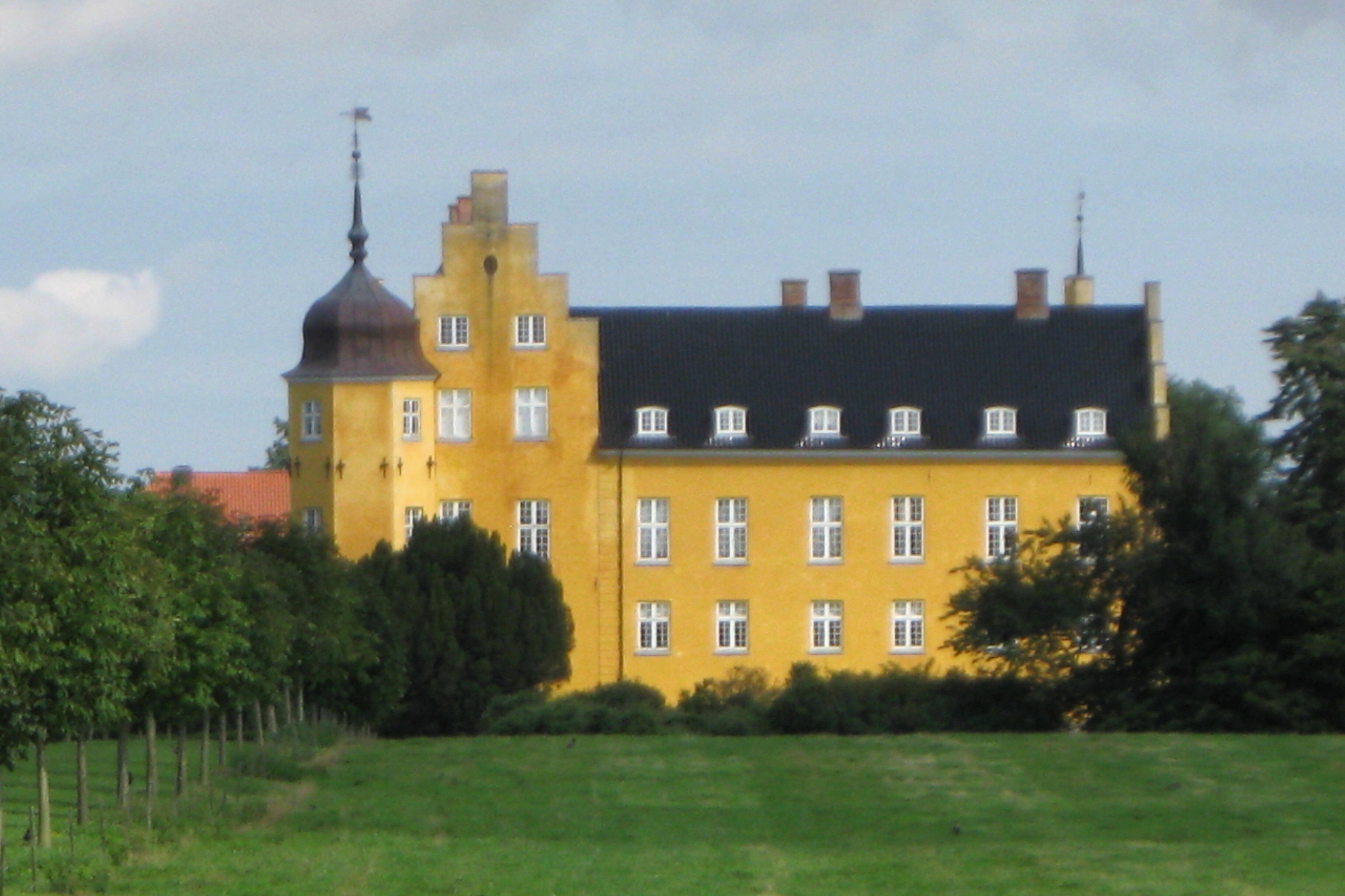 The estate "Krenkerup Gods" located on the eastern part of the island Lolland (east Denmark).